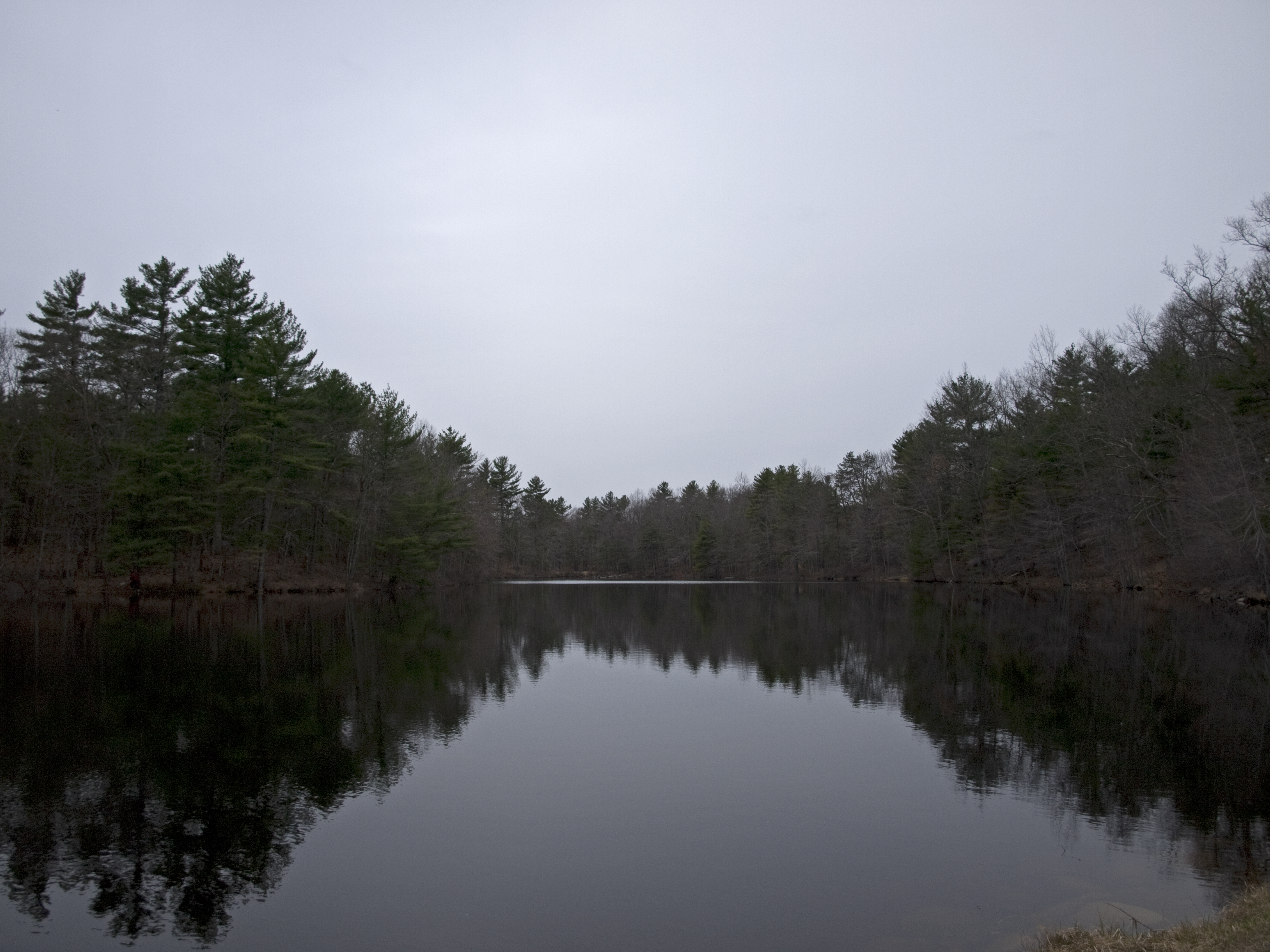 Ballard Pond, taken from the Taylor Mill Historic Site, Derry, NH